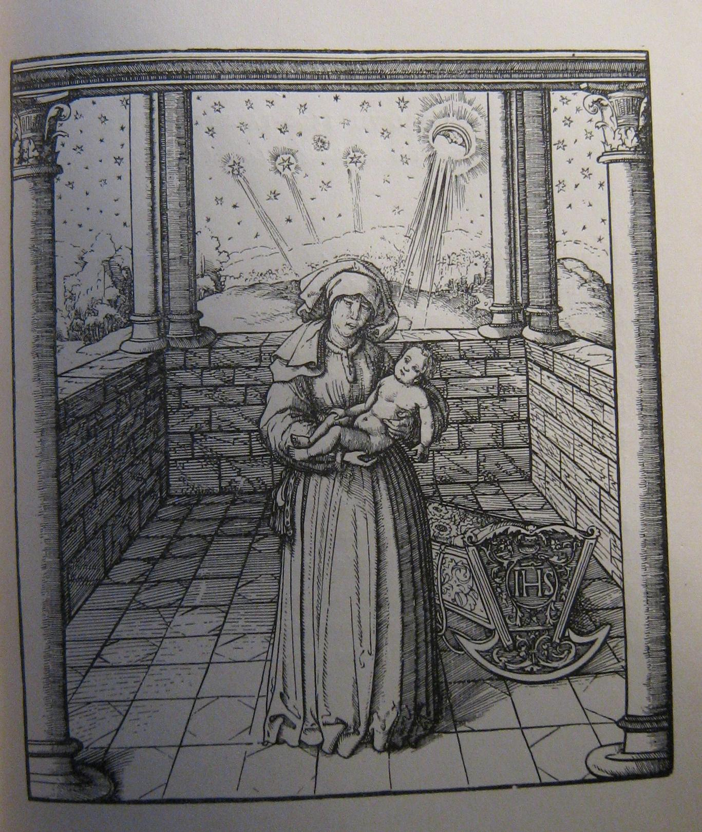 Birth of emperor Maximilian I